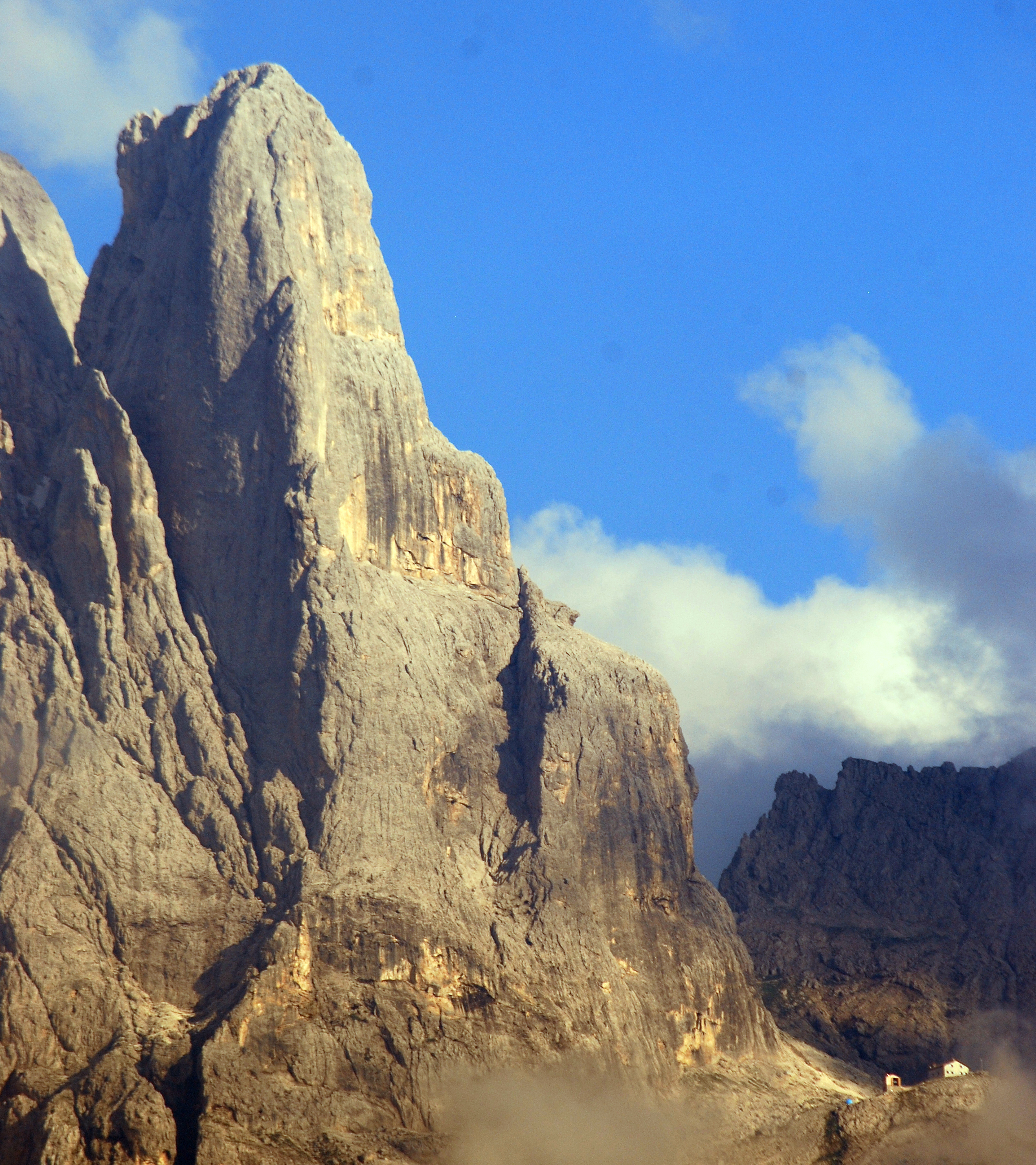 Cima della Madonna from San Martino. Rifugio Velo under the Spigolo di Velo